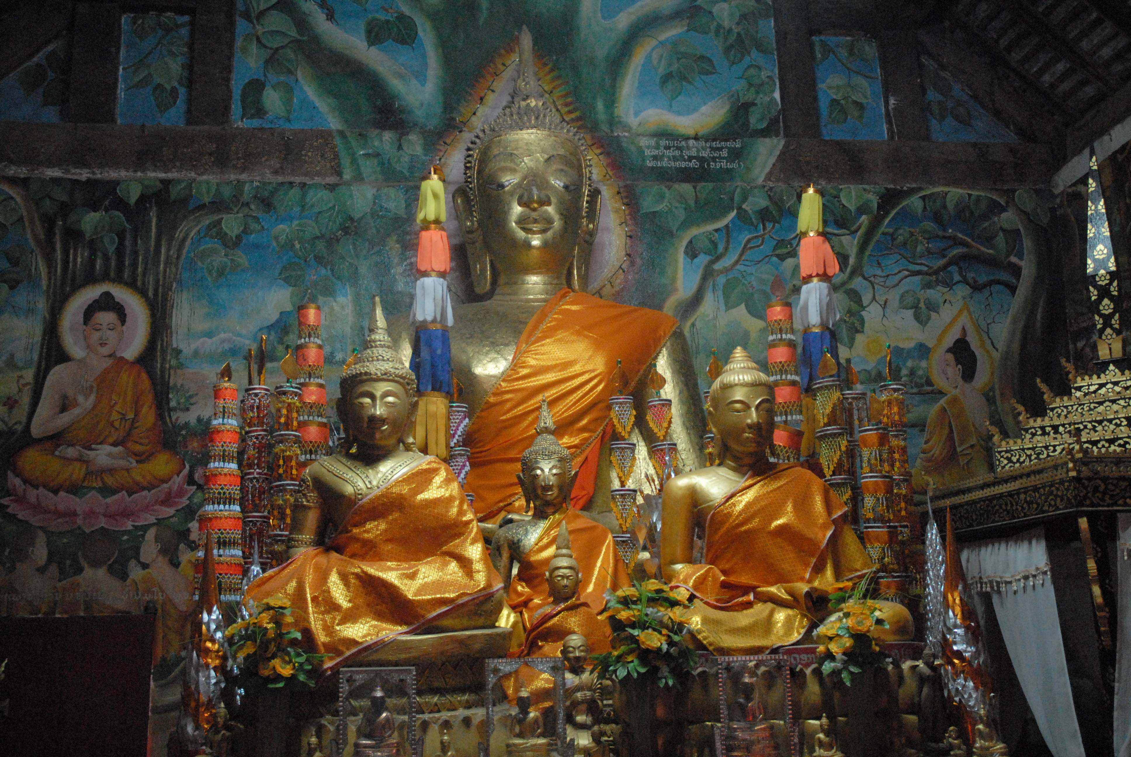 Vat Aham in Luang Prabang: Buddha statues